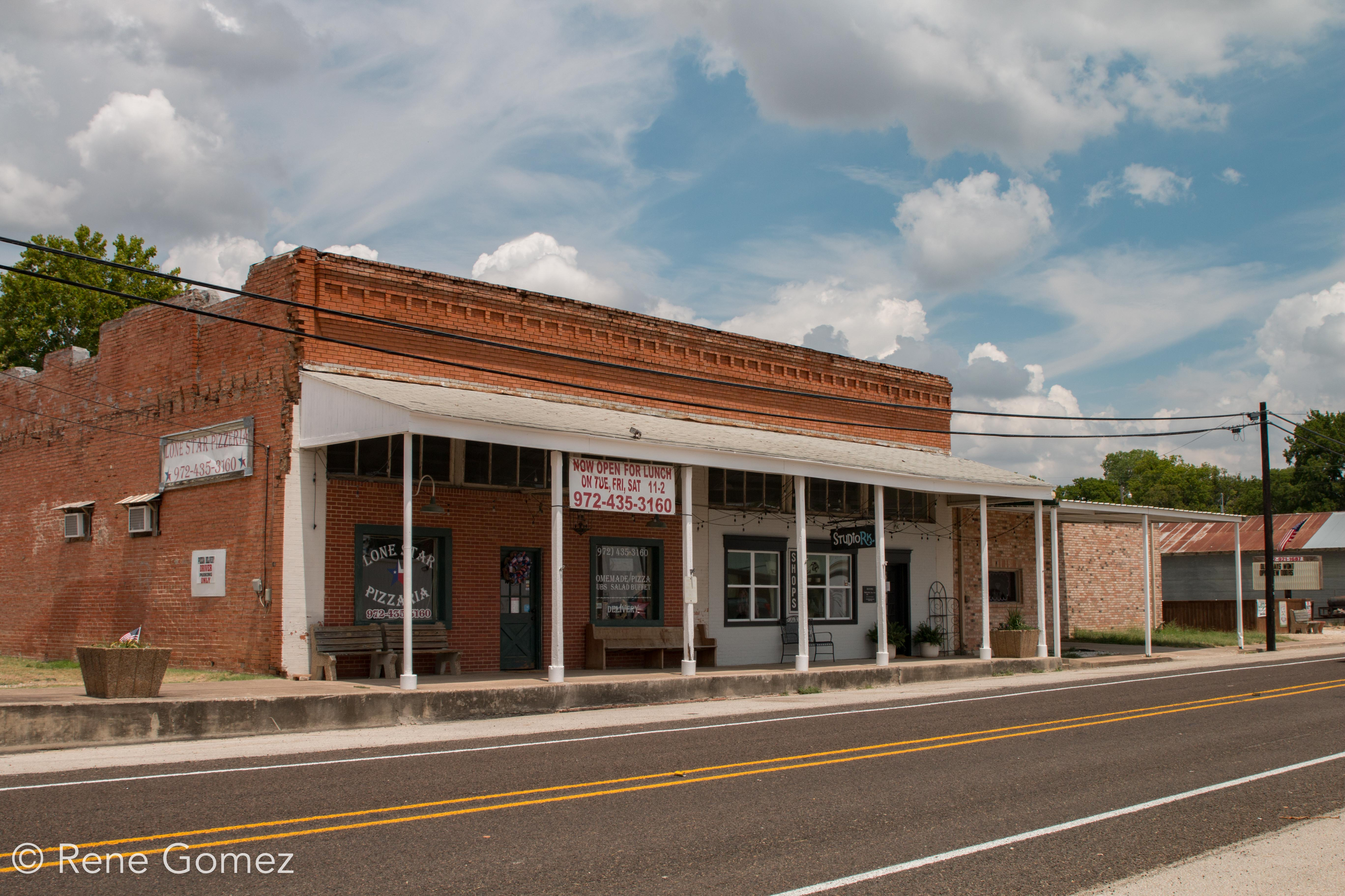 Downtown Maypearl, Texas